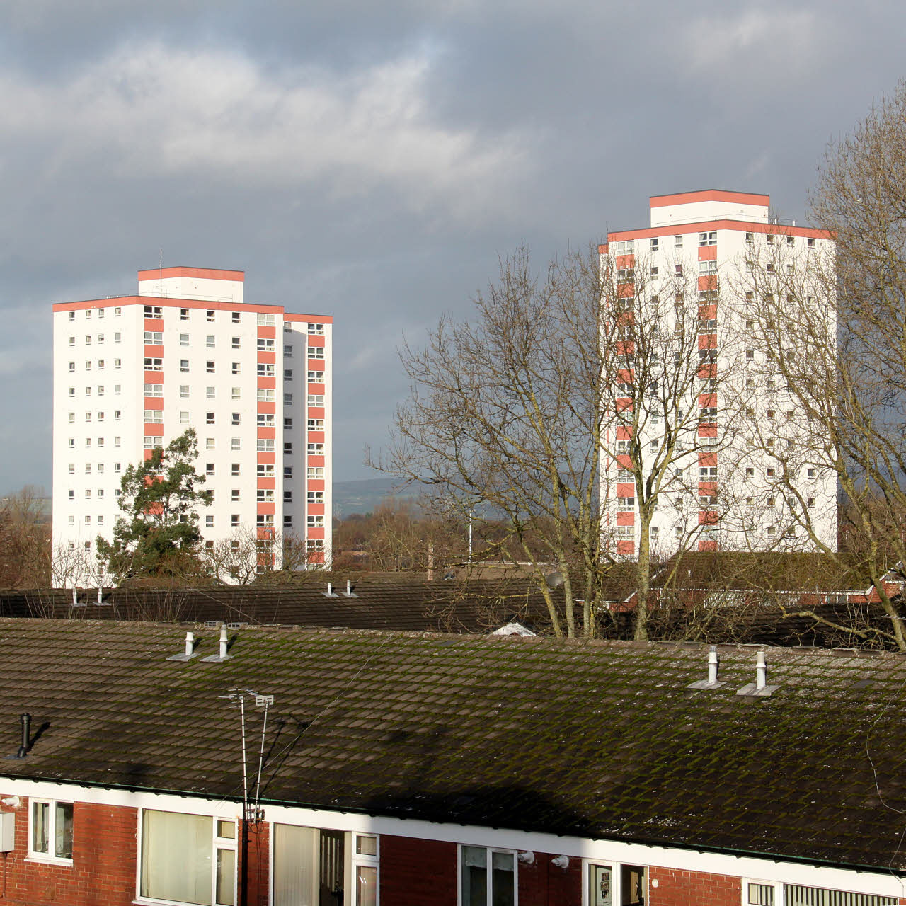 Lansdowne and Stockfield